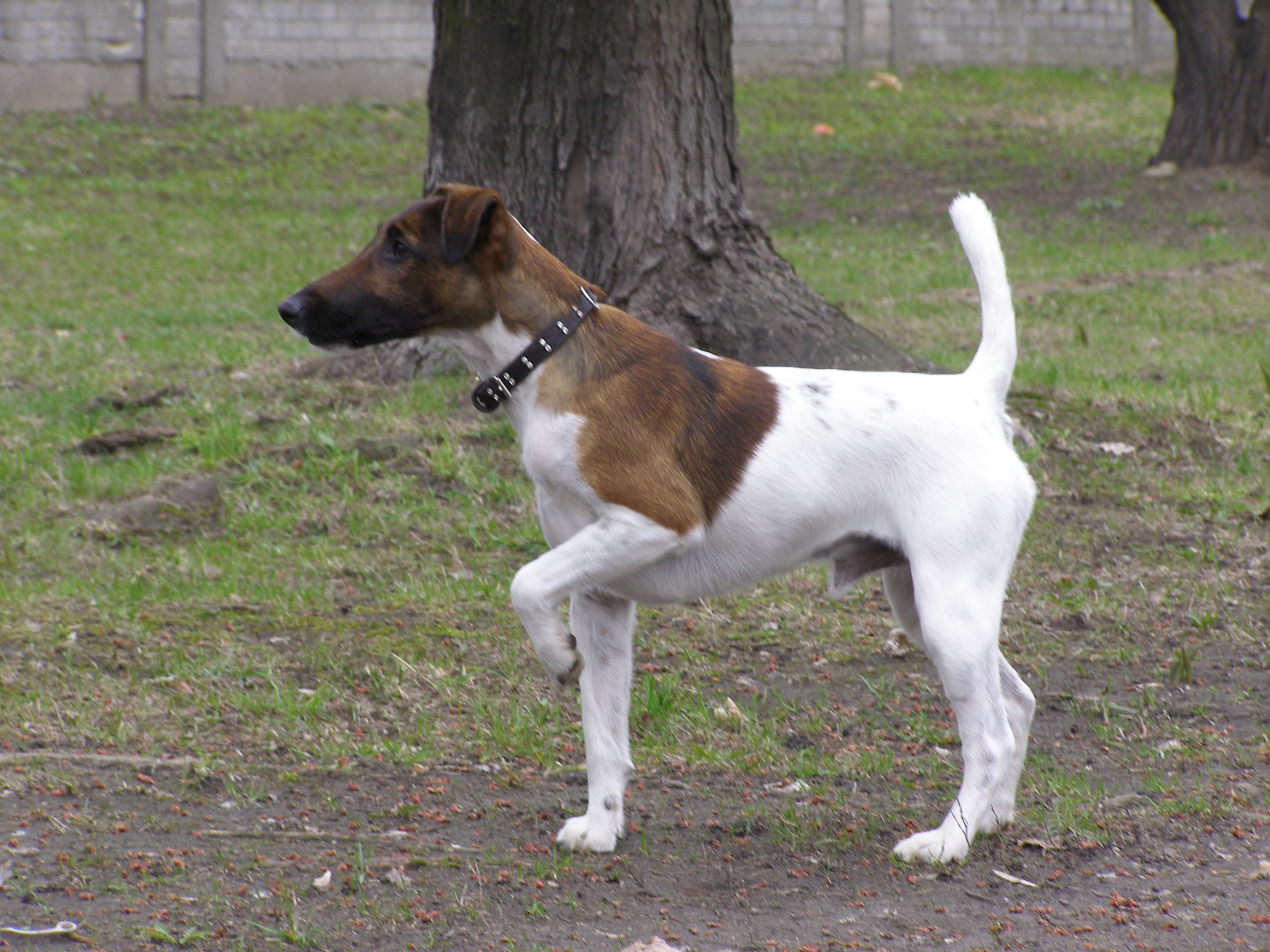 Smooth Fox Terrier from "Czeczuga" Poland